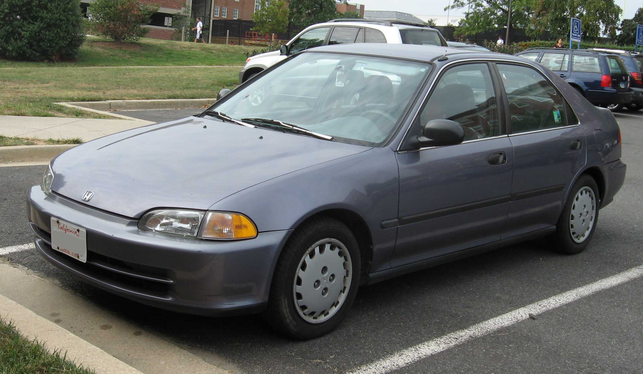 1992-1995 Honda Civic photographed in College Park, Maryland, USA.